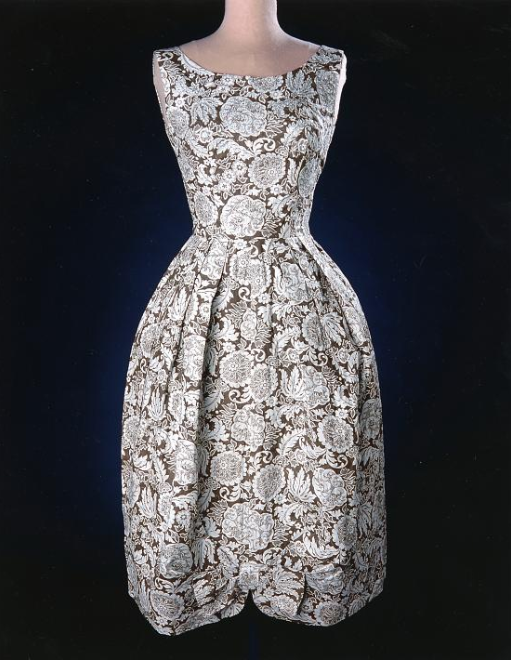 According to the Smithsonian's catalog, "This dress was made by Mrs. G. R. (Dorothy) Overall of Caldwell, Kansas, in 1959 for the Cotton Bag Sewing Contest sponsored by the National Cotton Council and the Textile Bag Manufactureres Association. The dress is made of cotton bag fabric, with an overall design of white flowers on a brown (originally black) ground. The dress is lined with black organdy, and machine quilted with a synthetic silver sewing thread. Mrs. Overall was awarded 2nd place in the Mid-South section of the contest."